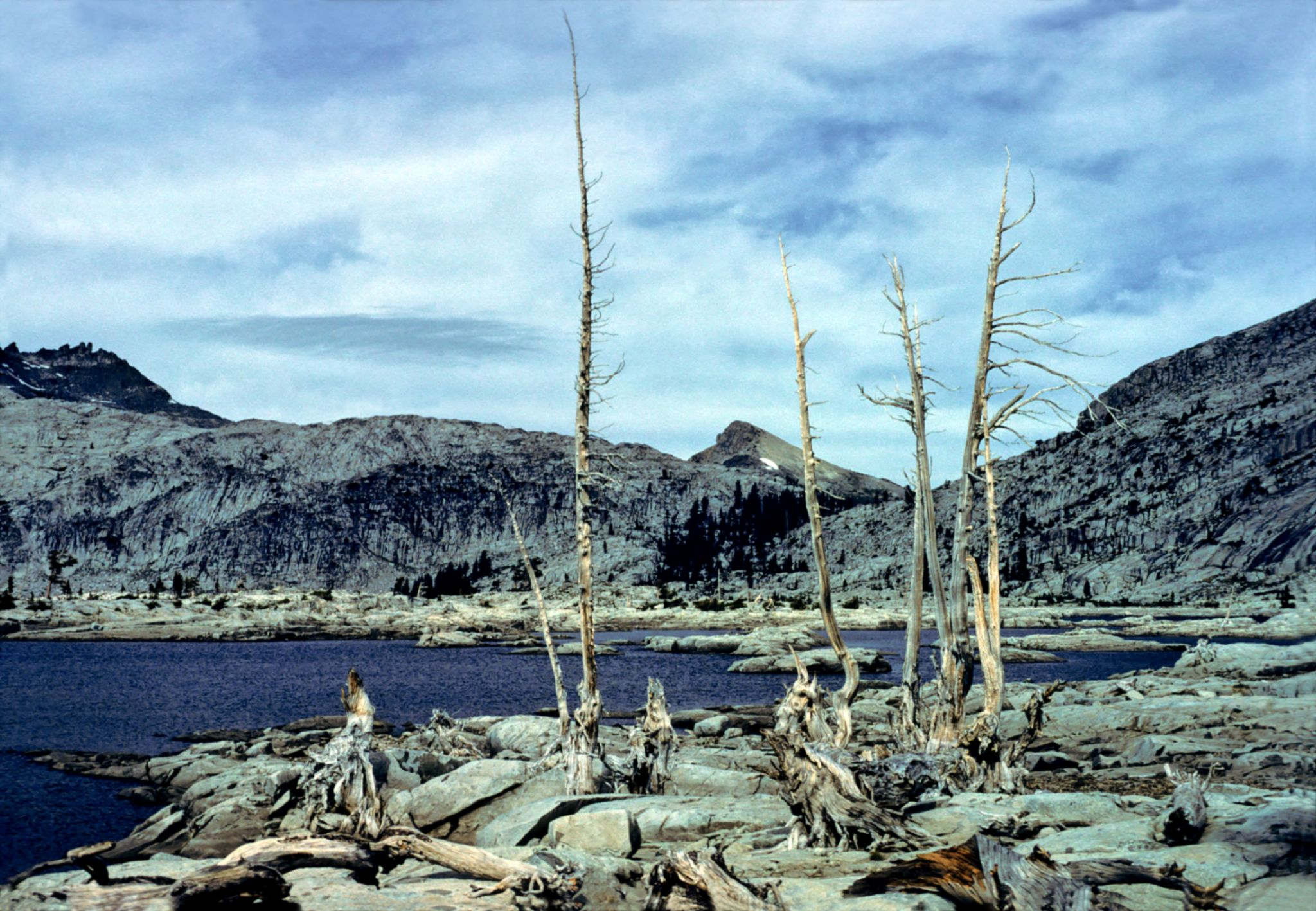 This is one trippy area to hike in. Lake Aloha is accessible from the Fallen Leaf Lake trailhead and is a moderate altitude gain as you head west. To reach the base of 2 peaks, Pyramid and Price, you have to traverse Lake Aloha in Desolation Valley - not easy. We felt like we were in a full scale maze and the topo maps didn't help.